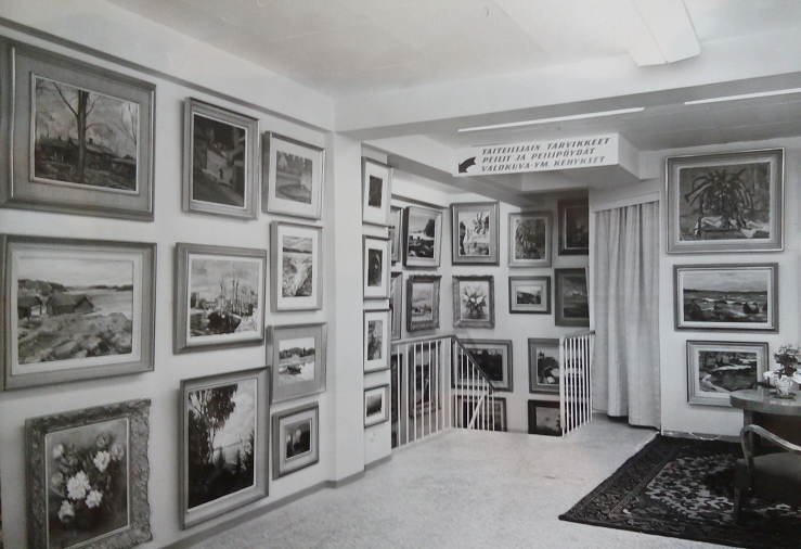 Lauri Vahteras art and art supply store in Turku 1950